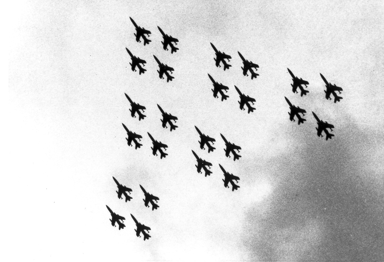 On June 4, 1983, the 419th Tactical Fighter Wing, Utah's only Air Force Reserve flying unit, began retiring the renowned F-105 Thunderchief with a 24-ship flyover of Hill Air Force Base. Personnel who had distinguished themselves in combat operations years before in Southeast Asia led and participated in the singular final tribute.